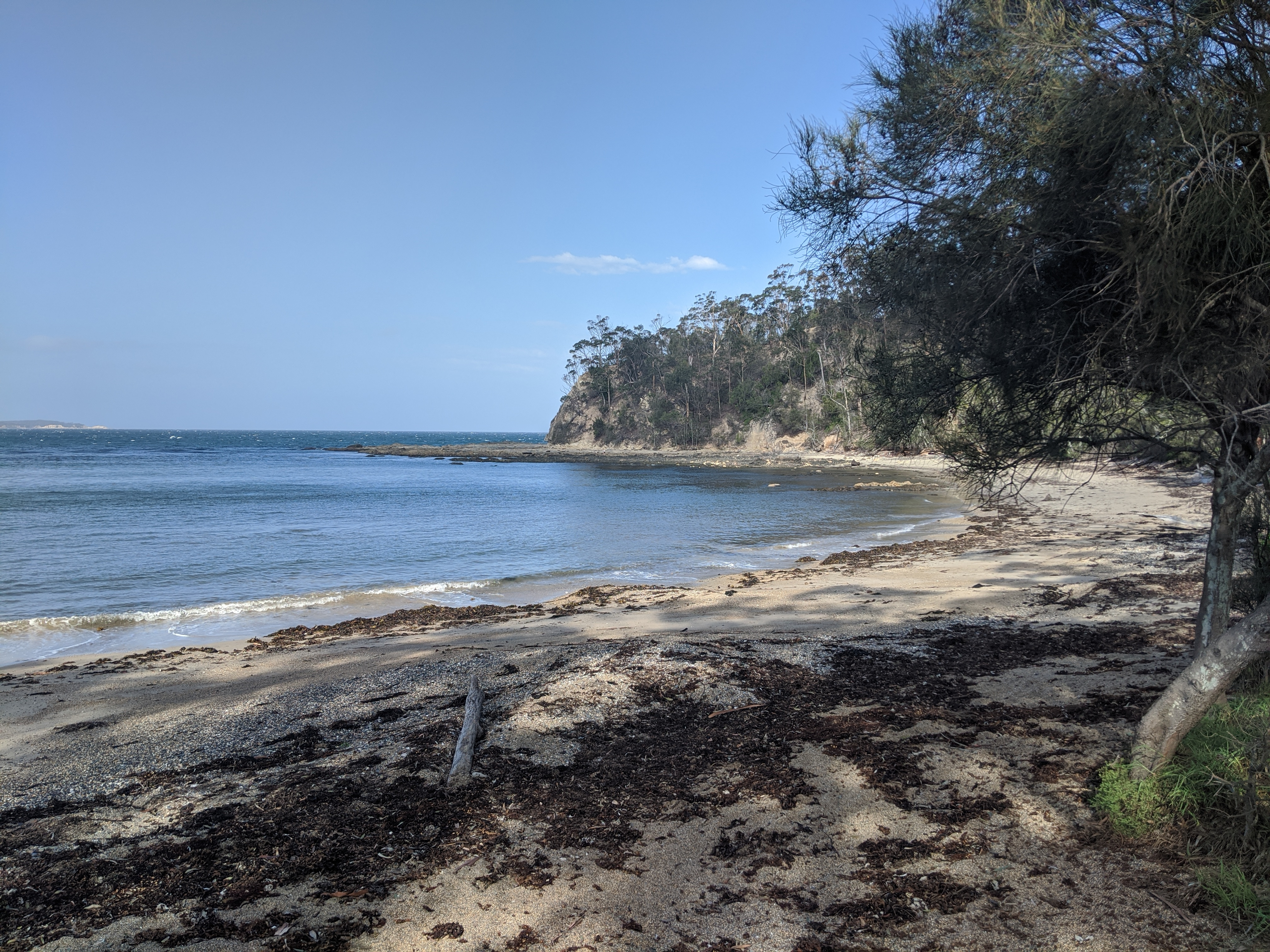 Sunshine Bay, New South Wales. looking south, 2020